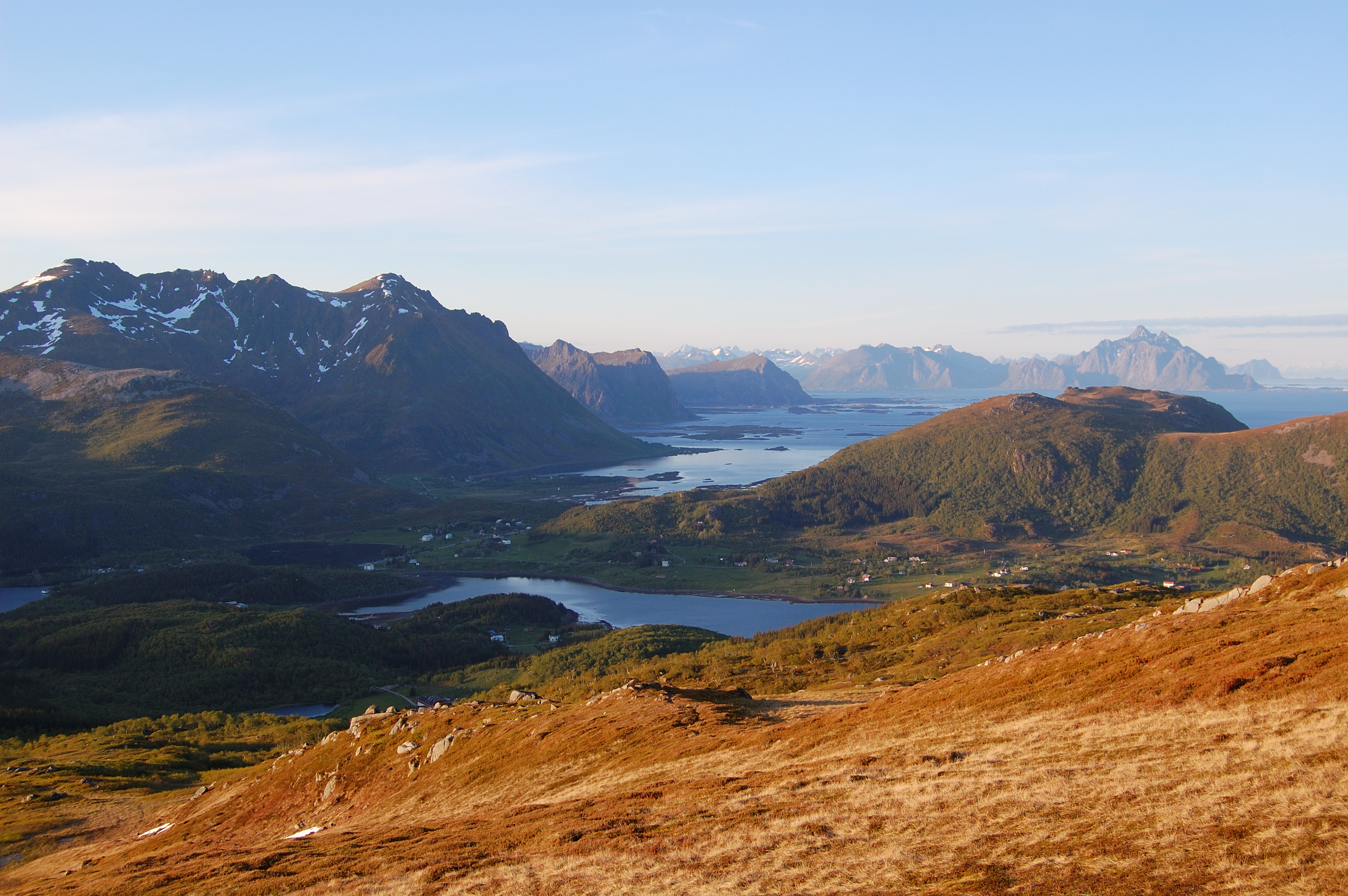 A view of a landscape between Leknes and Stamsund.